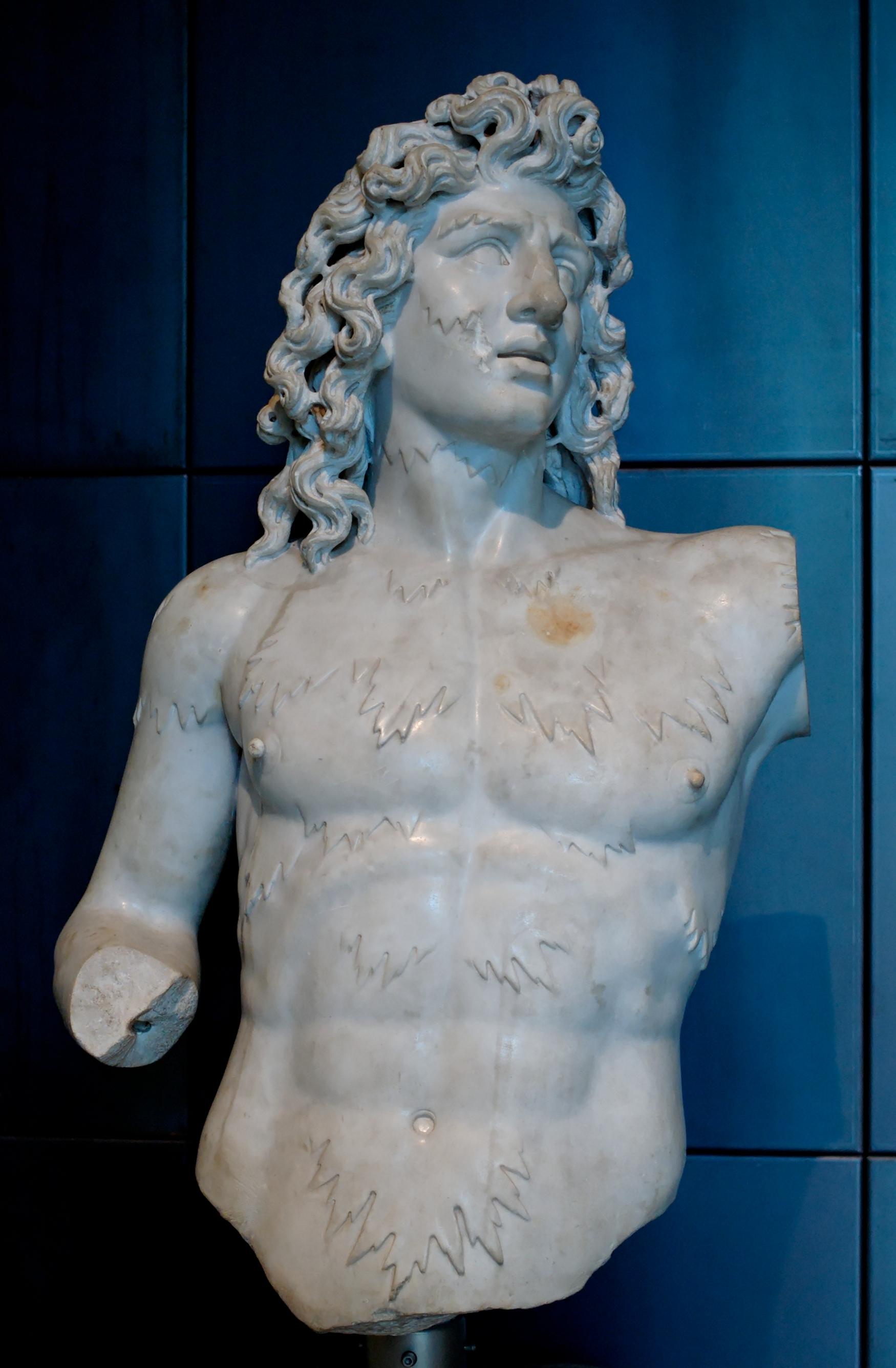 Triton or sea centaur, part of a group representing Commodus' apotheosis as Hercules. Luni marble, Roman artwork, 191-192 CE.